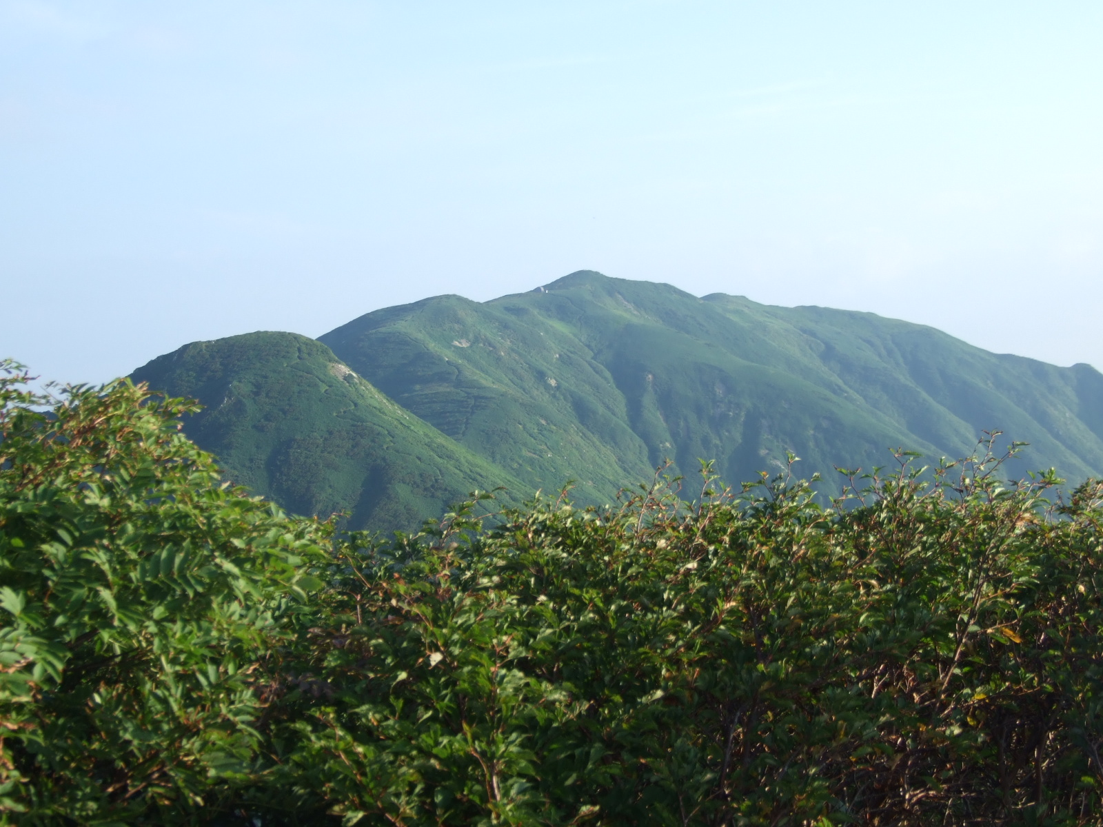 Mount Eburisashi in the Iide Mountains